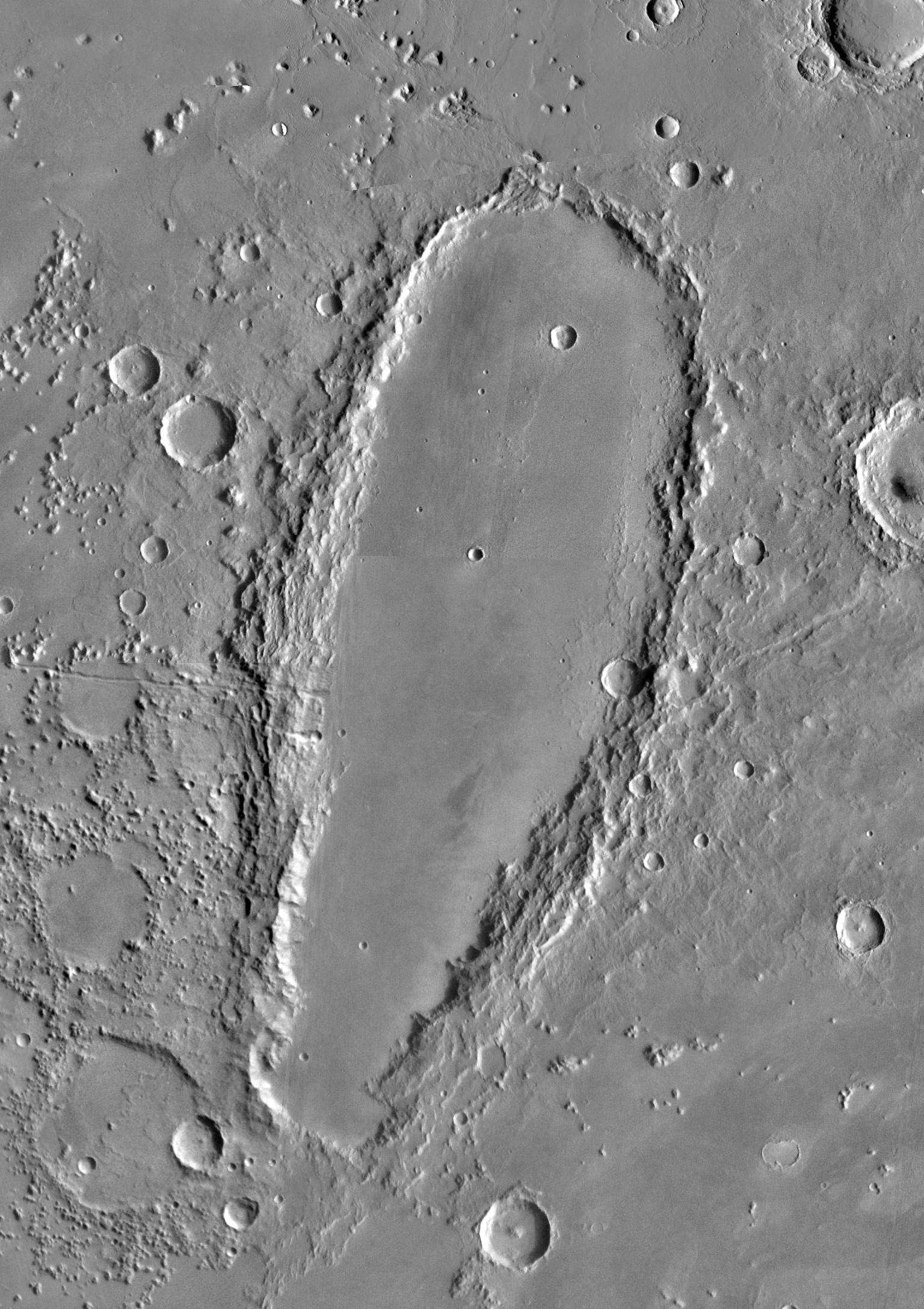 Orcus Patera on Mars. Part of Viking MDIM2.1 mosaic (in simple cylindrical projection). Width is 356 km, resolution — 256 pix/deg (0.23154 km/pix). Map of the region.